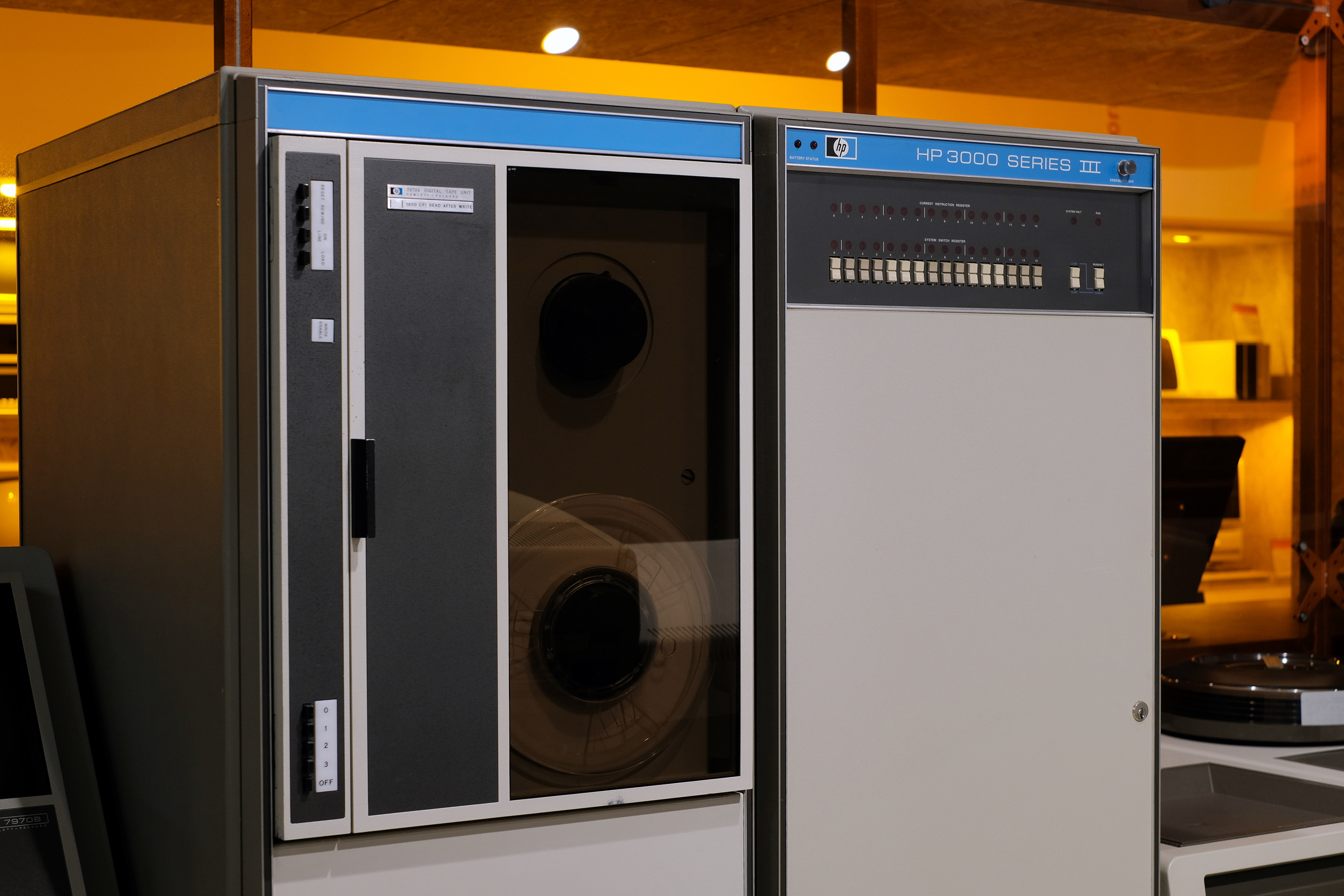 HP 3000 Series III computer, Technical Museum of Brno.